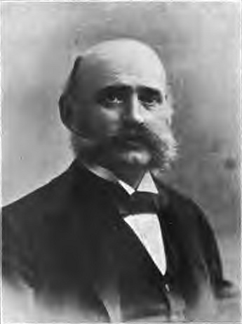 Photograph of one Professor Weigert who attended the formal opening of the Johnston Laboratories at the University of Liverpool, Liverpool, England, in the United Kingdom, on May 9th, 1903. This is indeed the pathologist Karl Weigert because this photograph also appears within the pages of The Modern Home Physician, An Encyclopedia of Medical Knowledge, edited by Victor Robinson, Ph.C., M.D., WM. H. Wise & Company, New York, 1939. His biograpy is on page 765 while the photograph is on Plate XIX with "Makers of Modern Medicine" as the title, where his name is spelt as Carl Weigert.